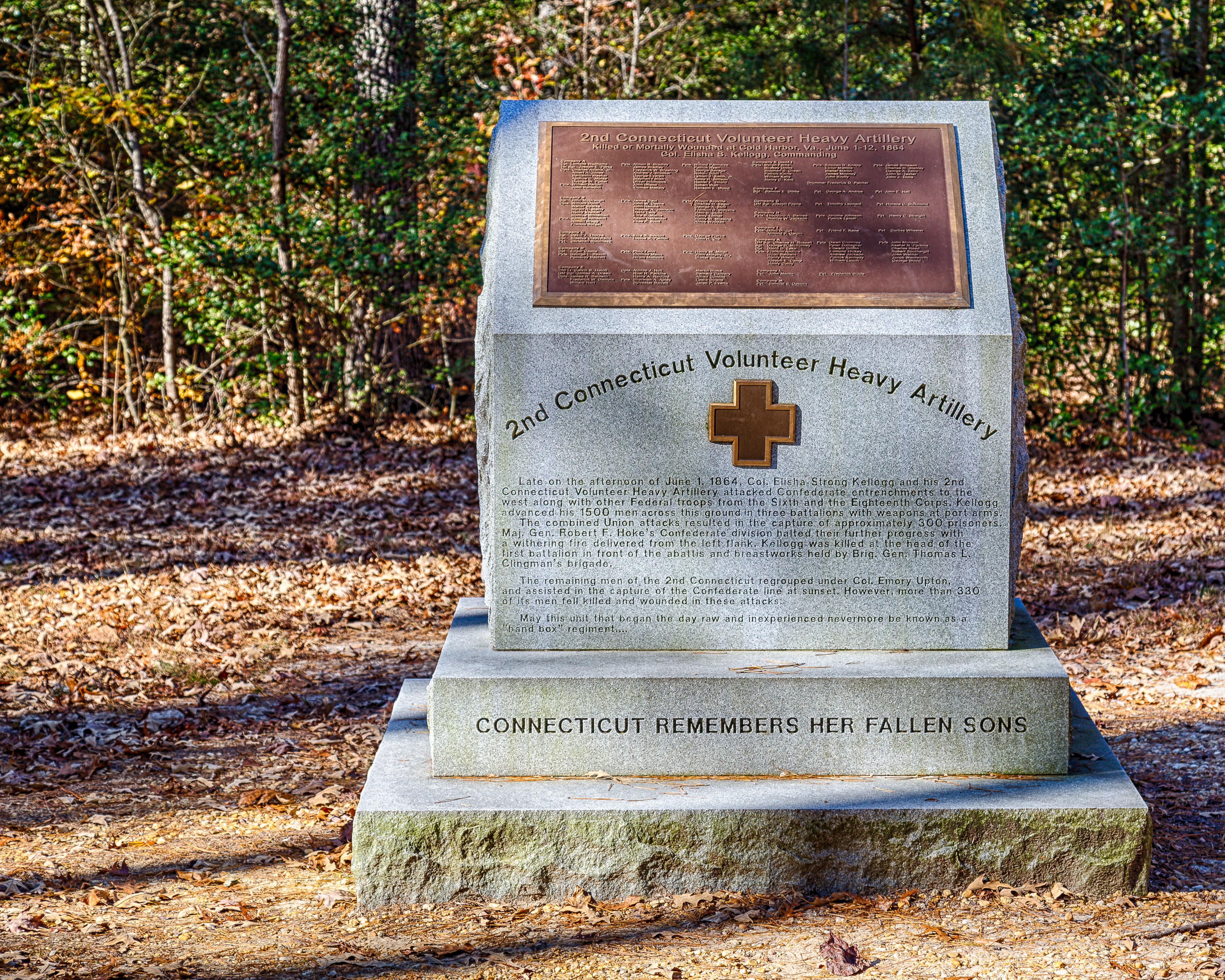 Connecticut Remembers Her Fallen Sons